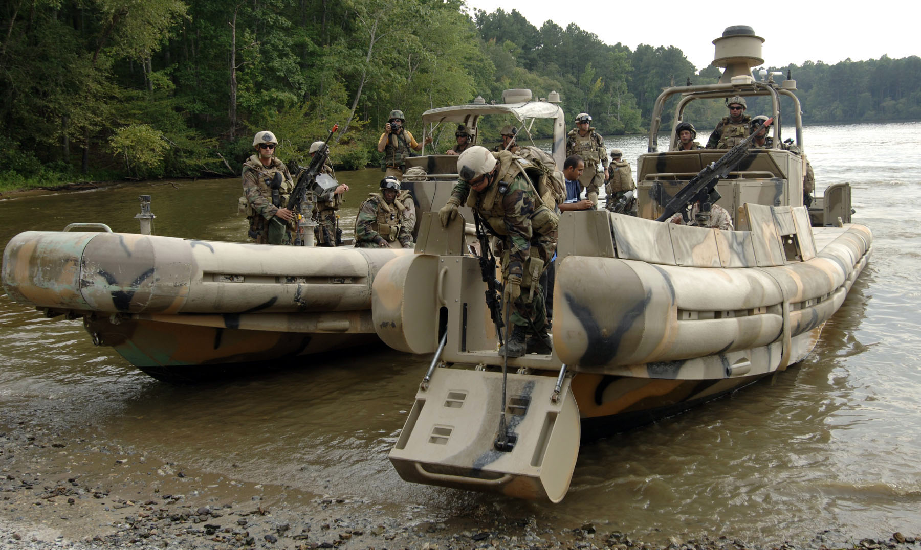 FORT PICKETT, Va. (Sept. 10, 2007) - Sailors assigned to Riverine Squadron (RIVRON) 2 come ashore with two simulated detainees to be turned over to Mobile Security Squadron 3, Det. 33, during COMET 2007. More than 700 active-duty and reserve personnel are participating in the Navy Expeditionary Combat Command integrated maritime security exercise at Fort Pickett, Cheatam Annex, and Little Creek Amphibious Base, in Virginia. U.S. Navy photo by Mass Communication Specialist 2nd Class Laura A. Moore (RELEASED)